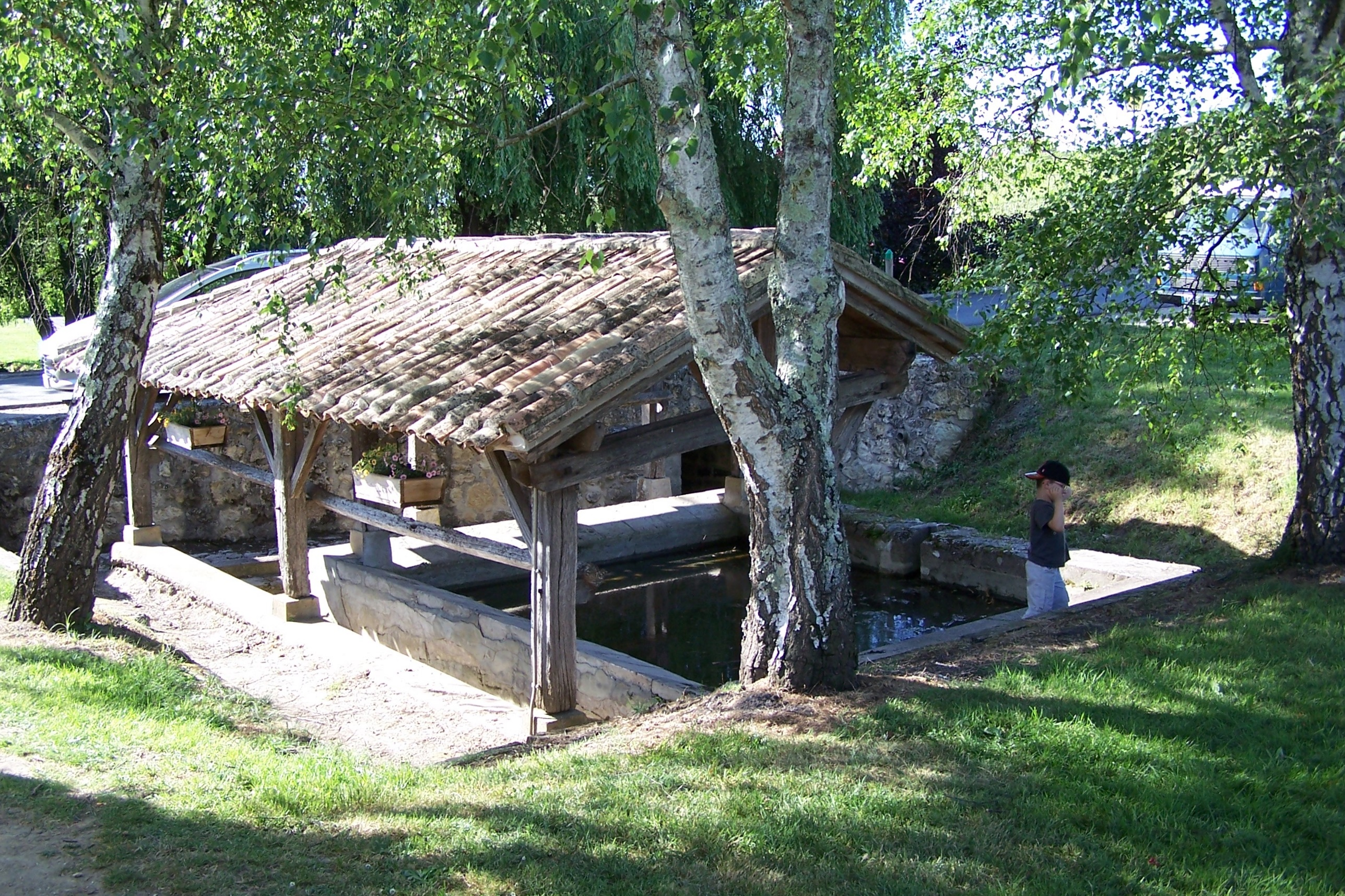 Wash house of Sauternes (Gironde, France)